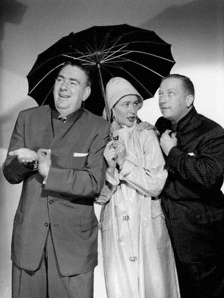 Promotional photo from the NBC Radio program Monitor. Comedians Bob and Ray are pictured with weather girl Tedi Thurman. The photo has no copyright markings on it as can be seen in the links above.